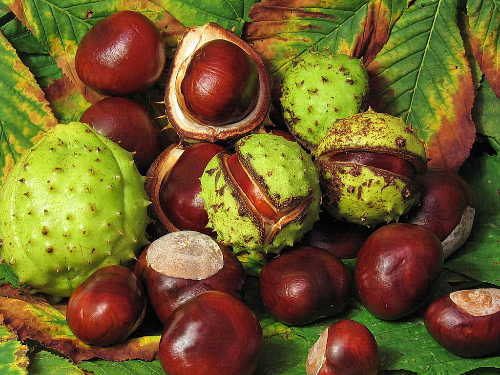 The fruit of the Horse chestnut tree. They are not true nuts, but rather capsules.